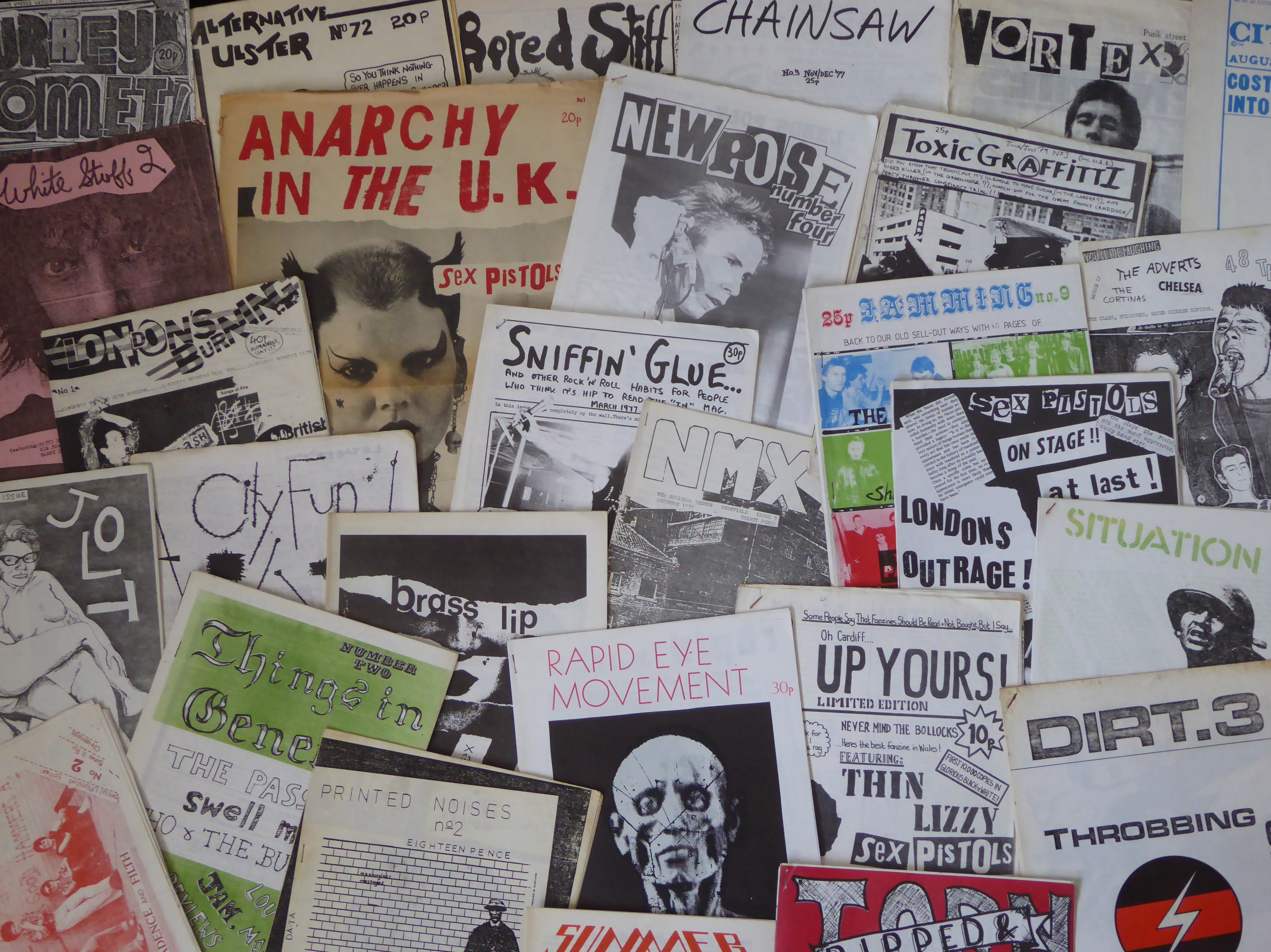 A selection of UK fanzines from the punk and immediate post-punk era. Just about visible are: Sniffin' Glue, New Pose, London's Burning, White Stuff, Anarchy In The UK, Jamming, 48 Thrills, Toxic Grafity, Chainsaw, Alternative Ulster, Bored Stiff, Vortex, London's Outrage, City Chains, Surrey Vomet, NMX, City Fun, Jolt, Situation 3, Brass Lip, Things In General, Rapid Eye Movement, Oh Cardiff Up Yours, Dirt, Guttersnipe, Printed Noises, Summer Salt, Ripped & Torn....